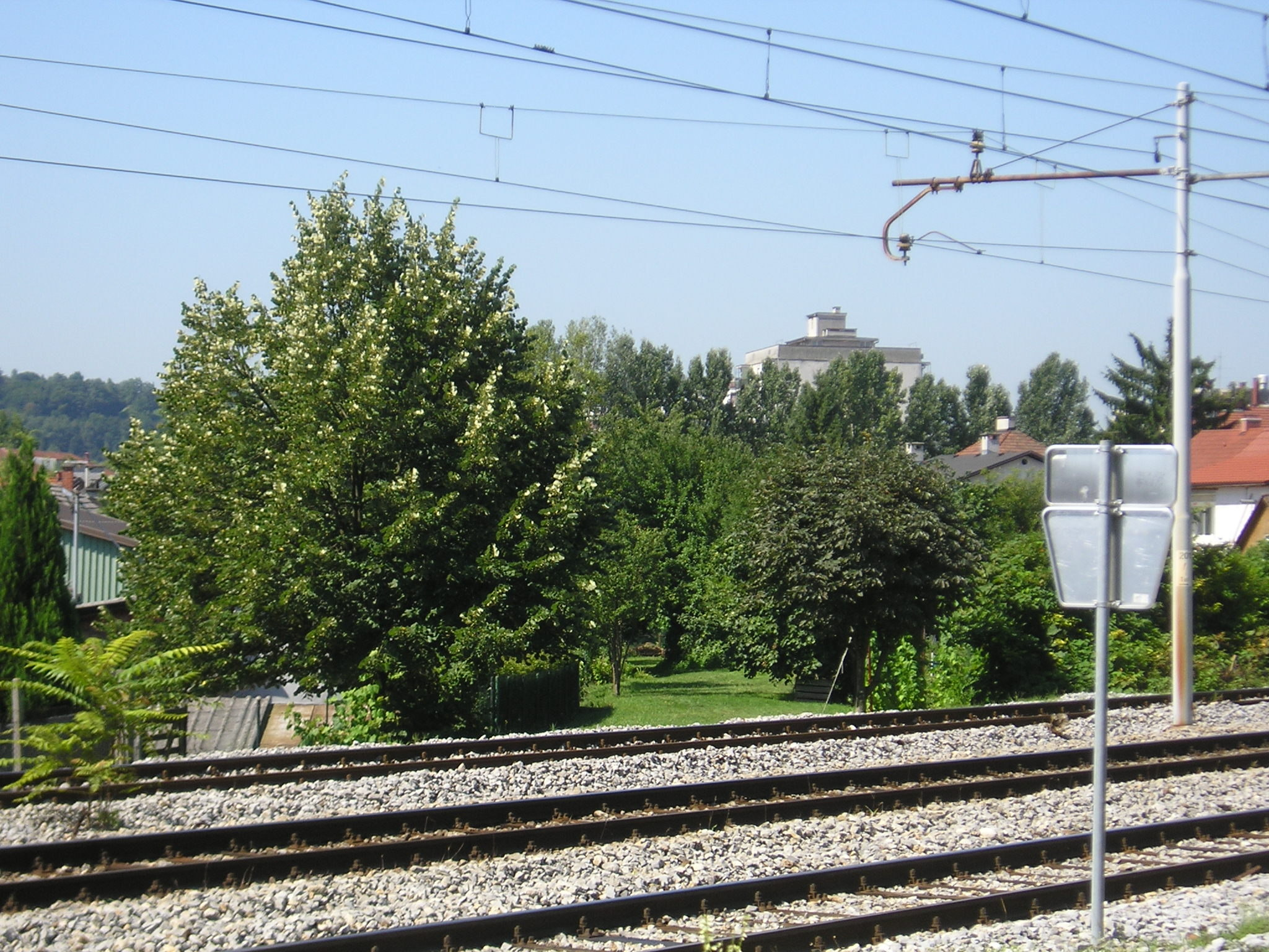 Still visible junction of the former Vodmat avoiding line and Südbahn (Ljubljana - Zidani most) in Moste district, Ljubljana, Slovenia